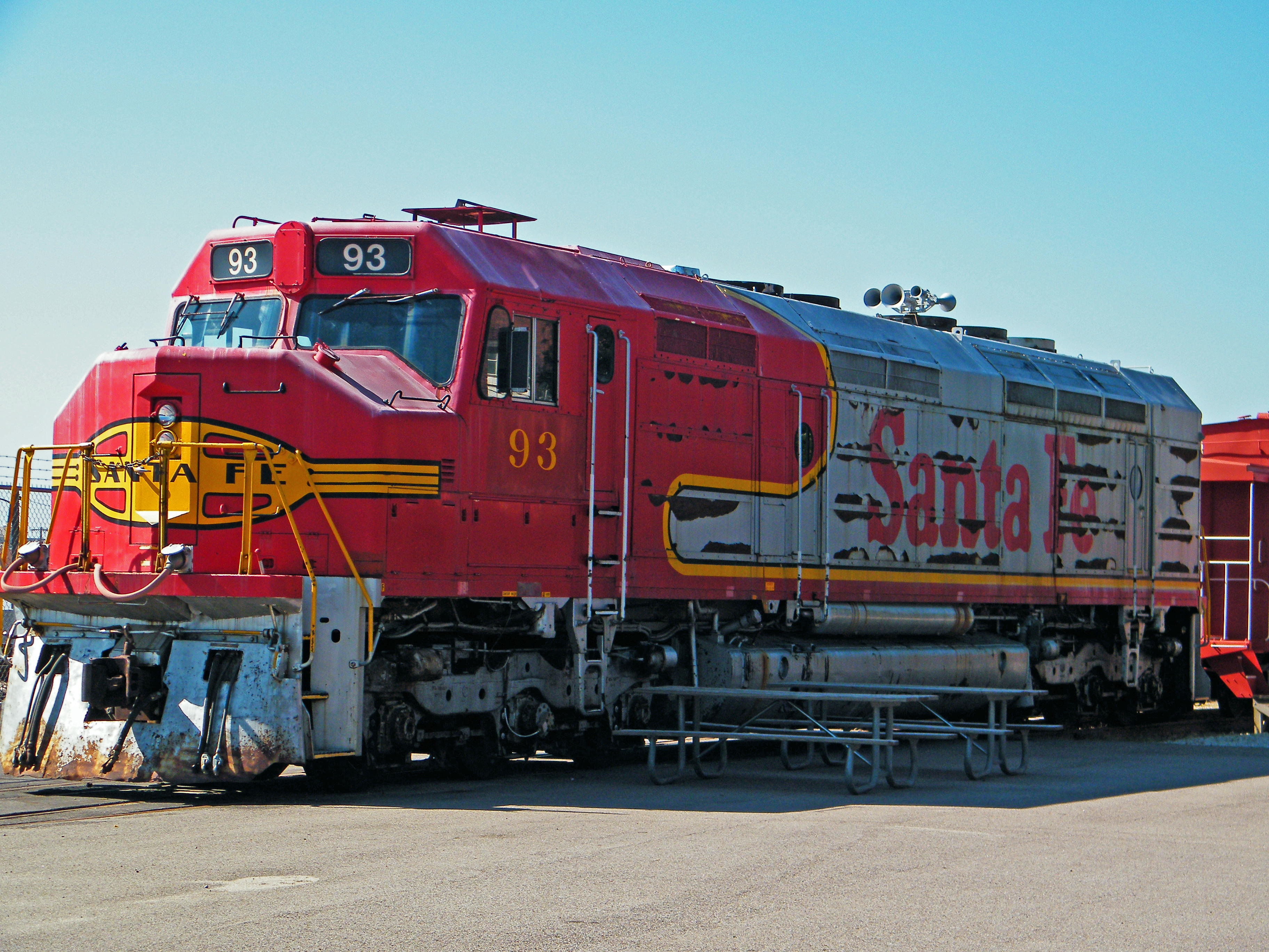 Another locomotive atop the Transportation Museum.